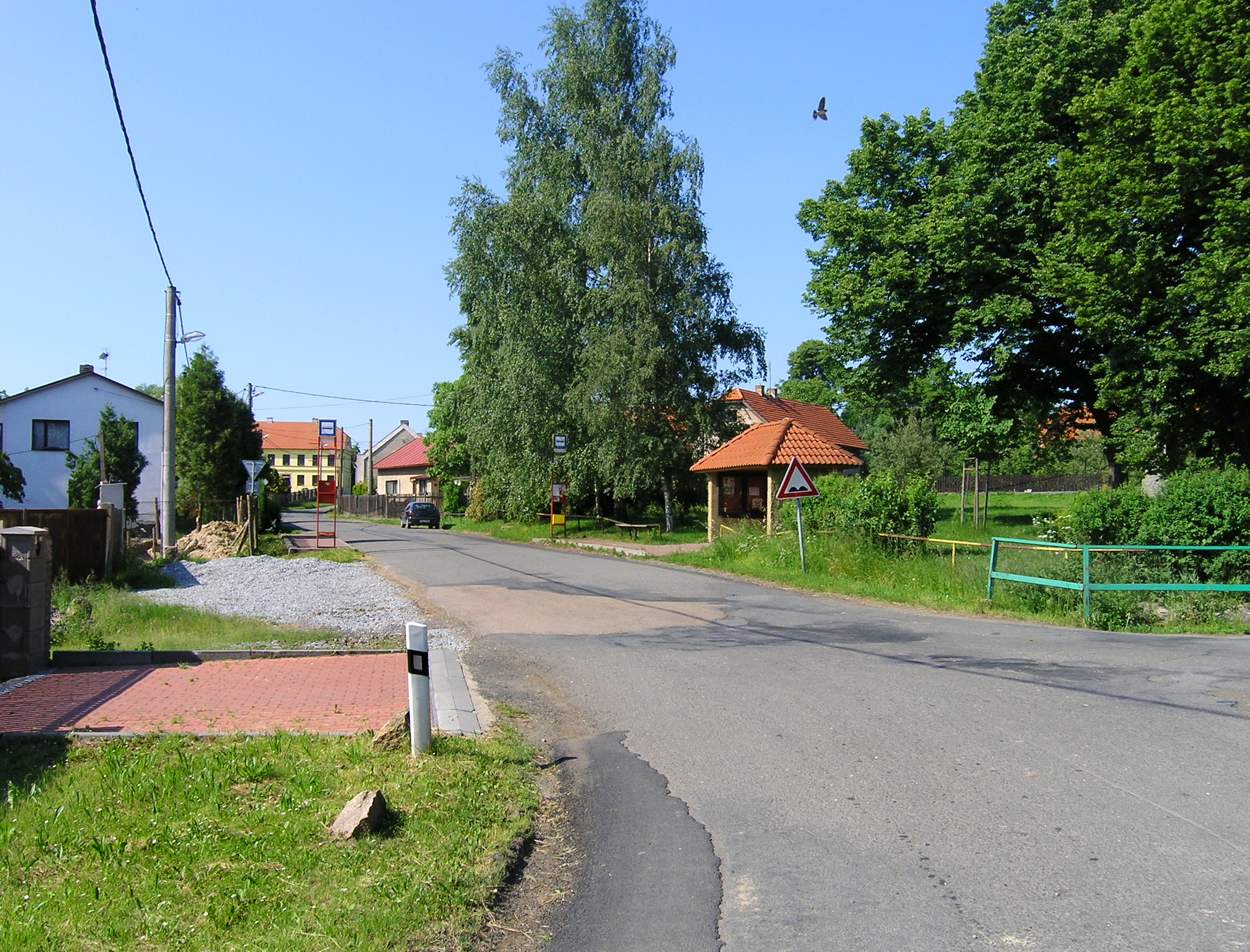 Bus stop in Křížkový Újezdec, Czech Republic. Road to Čenětice.